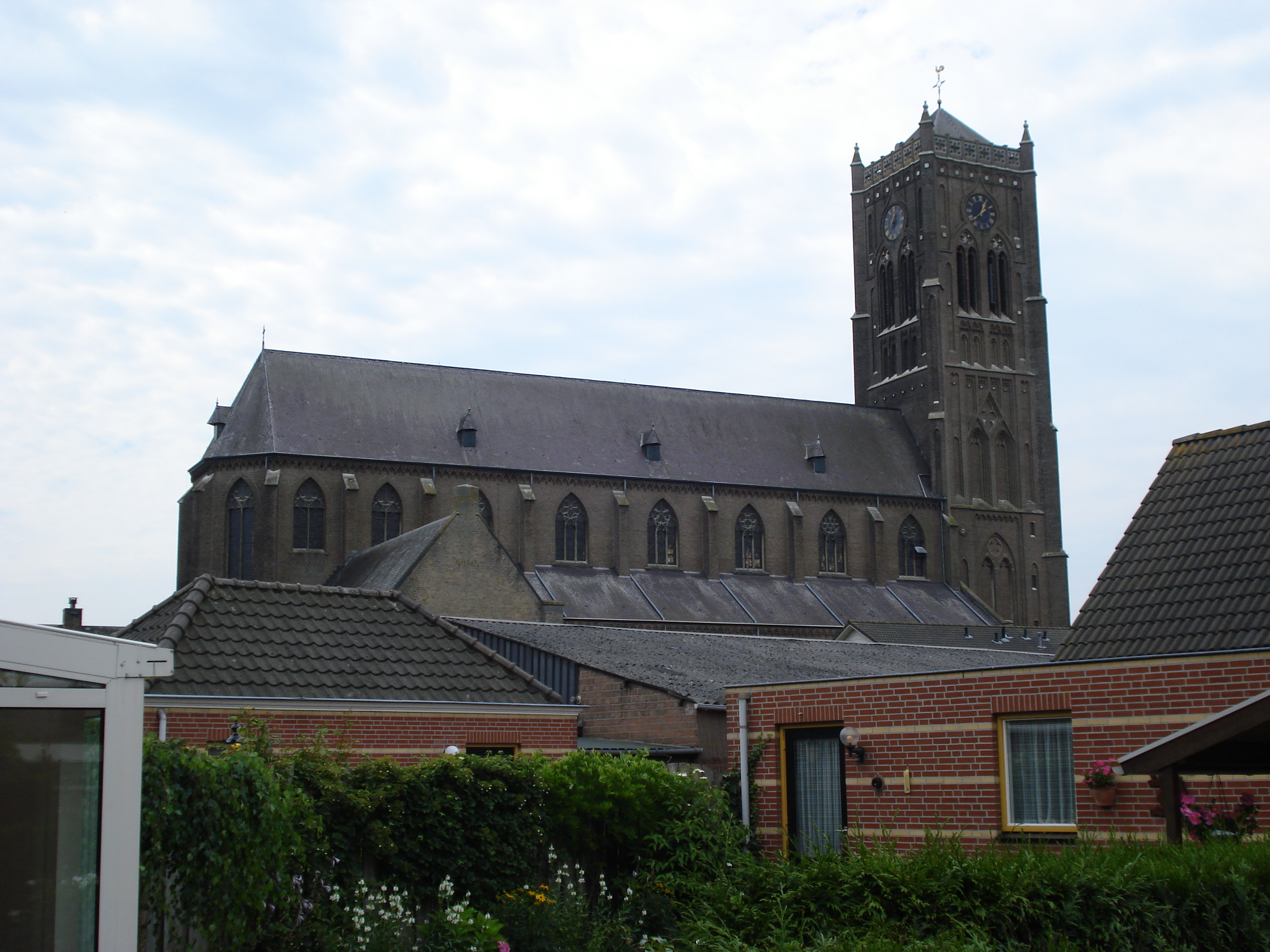 Mill, North Brabant, church St.Willibrord, 1877